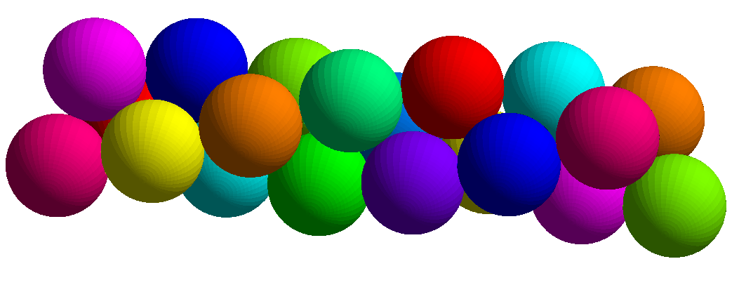 Boerdijk helical sphere packing